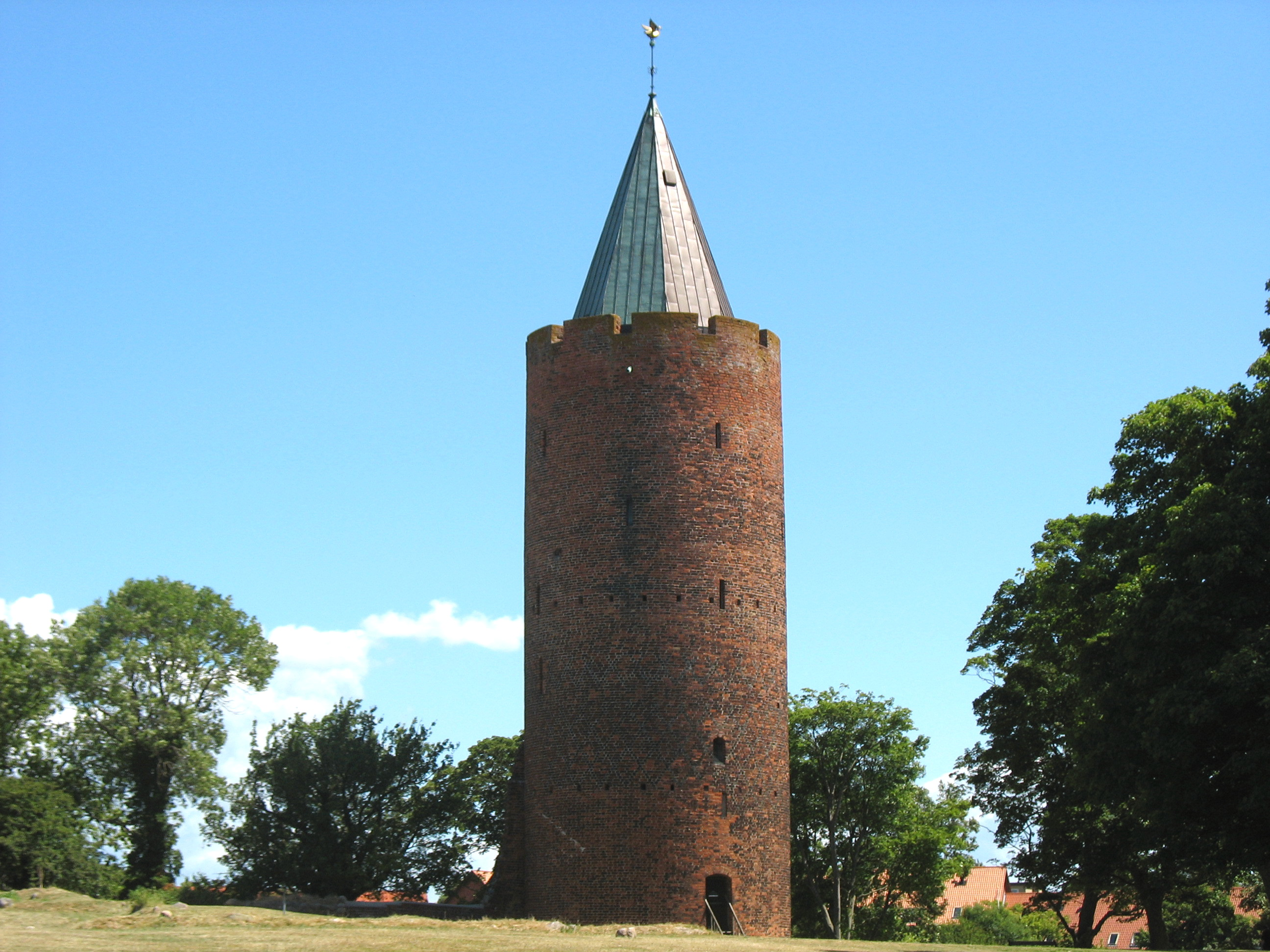 The old fortress tower "Gåsetårnet" in the town "Vordingborg", located i South Zeland, east Denmark.